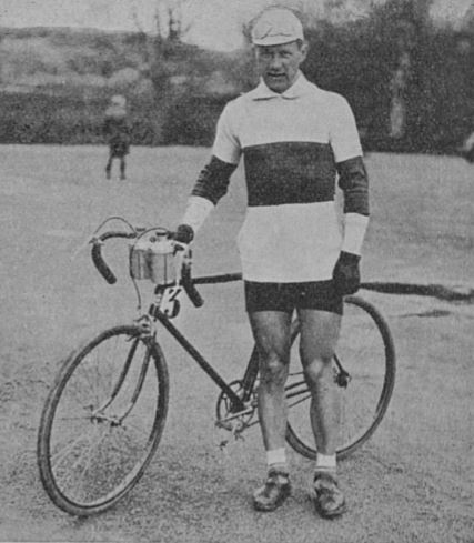 Bicyclist Raul Hellberg before the start of the 1928 Nokia-ajo.